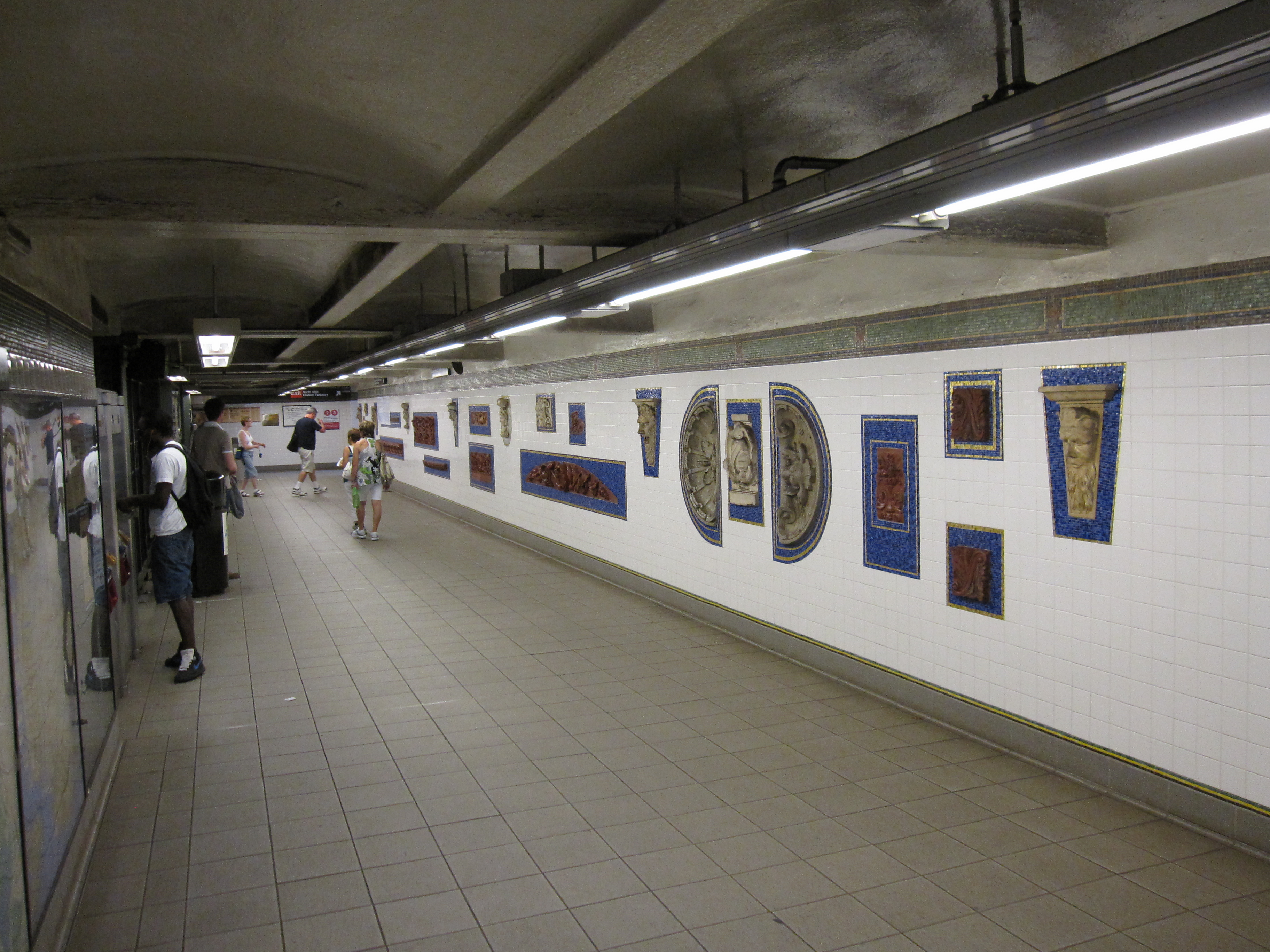 Eastern Parkway – Brooklyn Museum (IRT Eastern Parkway Line)